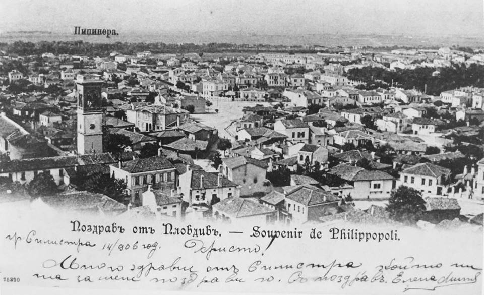 Площад „Цар Крум”, Пловдив (postcard)